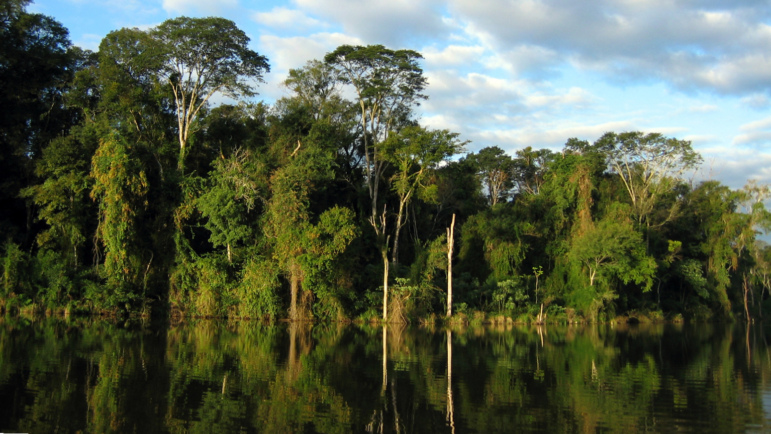 Altantic Forest in Paraguay.